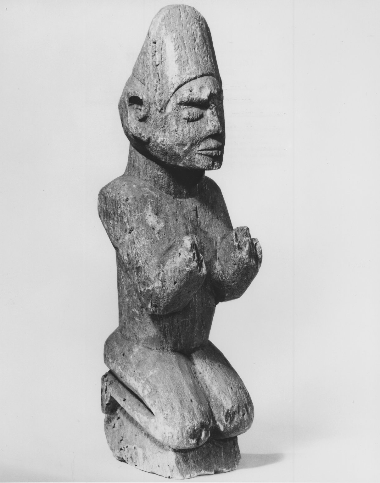 Male Figure Kneeling on a Pedestal (Ntadi)